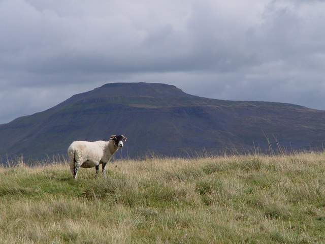 Sheep and Ingleborough. View from Turbary Road beneath Dodson's Hill